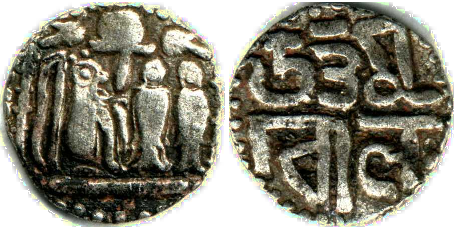 An early silver kasu of Rajendra Chola (the Chola dynasty, south India). Original "Seated Tiger" design is (also used in a gold fanam coin) seen. Obverse: Tiger (Chola symbol) seated right faces towards two upright fishes (Pandya symbol) with Bow (Chera symbol) behind and the Umbrella above. Reverse: Uttama/Chola - in Nagari script. The coin is discussed by C. H. Biddulph in his 1966 monogram on Coins of the Cholas. In his catalog he lists this coin #26 as by Rajendra I (1012-1044 AD) after he assumed the title Uttama Chola. Michael Mitchiner (#713-725) notes that Chattopadhyaya (1977, p53) disagreed. Text edited from Coins of the Cholas: C. H. Biddulph, NSI #13, 1966. Oriental Coins: Michael Mitchiner, London, Hawkins Publications, 1978. SPECIFICATIONS Denomination - Kasu Alloy - Silver Type - Struck Diameter - 18.8 mm Thickness - 2.6 mm Weight - 4.10 g Shape - Round Edge - Plain Die Axis - 120°